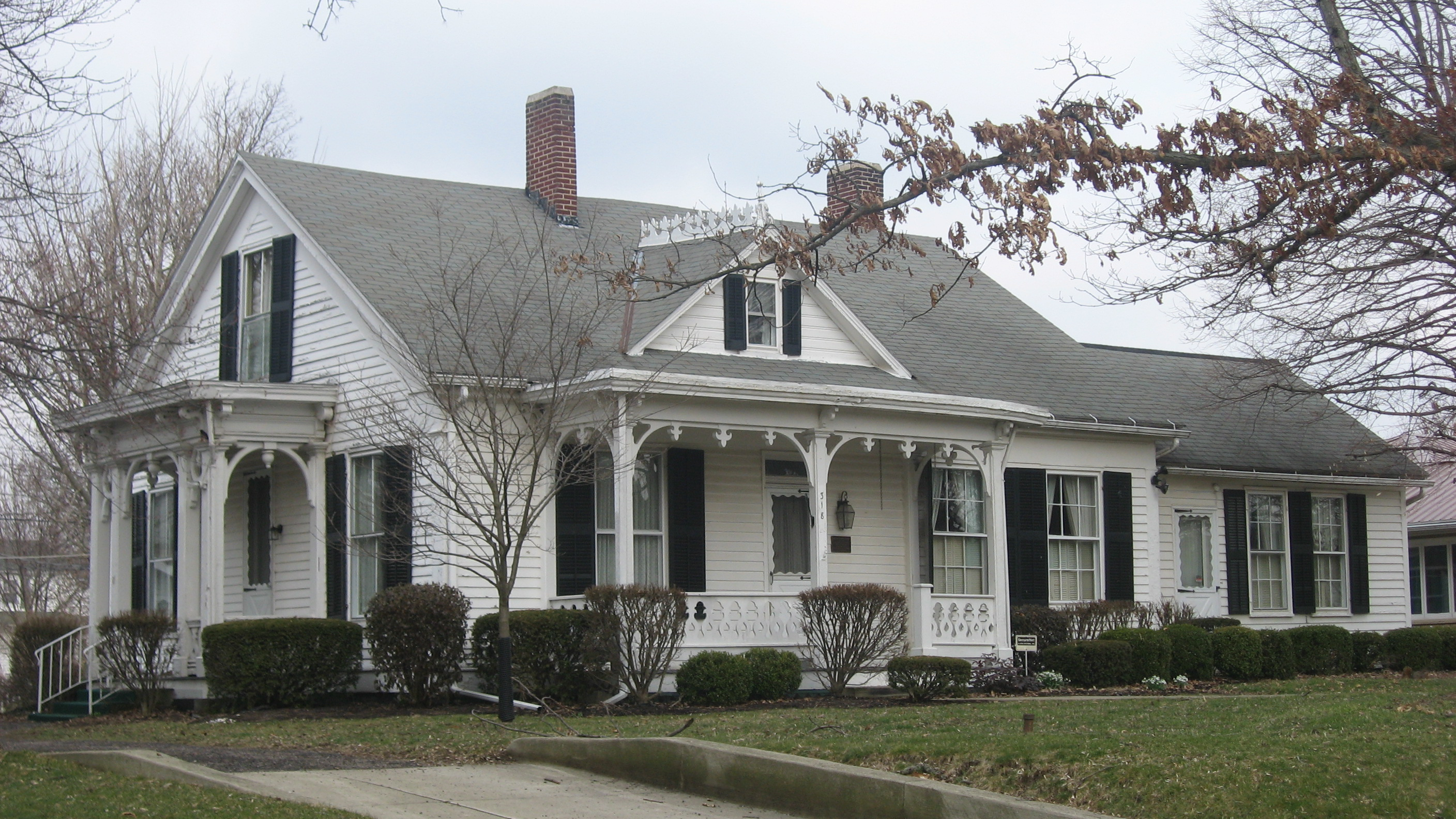 Front and western side of the Rawlings-Brownell House, located at 318 Rawlings Street in Washington Court House, Ohio, United States. Built in 1851, it is listed on the National Register of Historic Places.